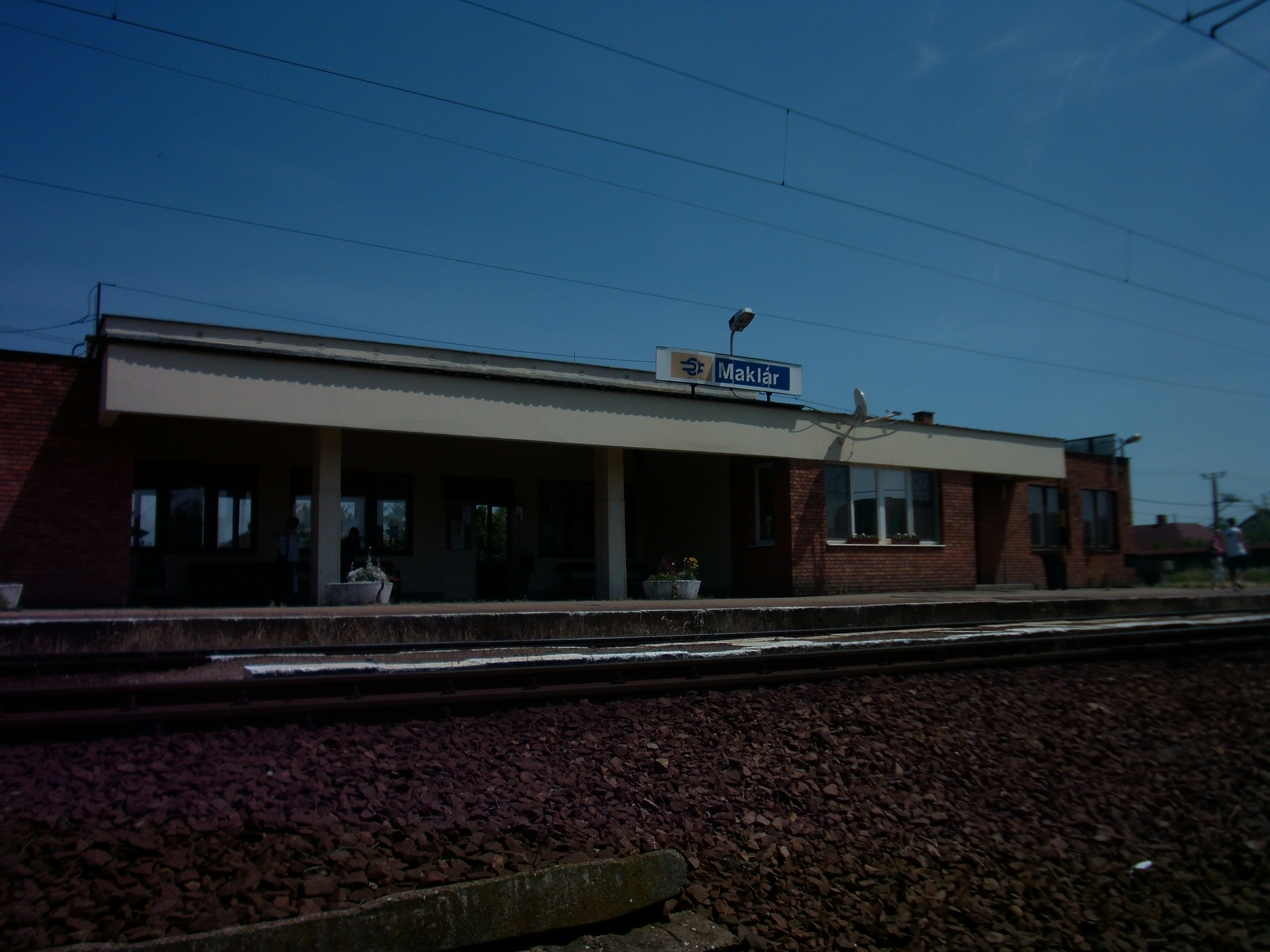 Maklár station (present)